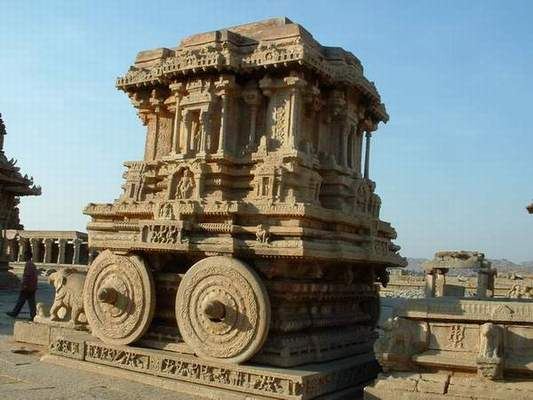 Hampi- Stone Chariot in Vittala Temple Photograph taken by me (KRS) in December 2003